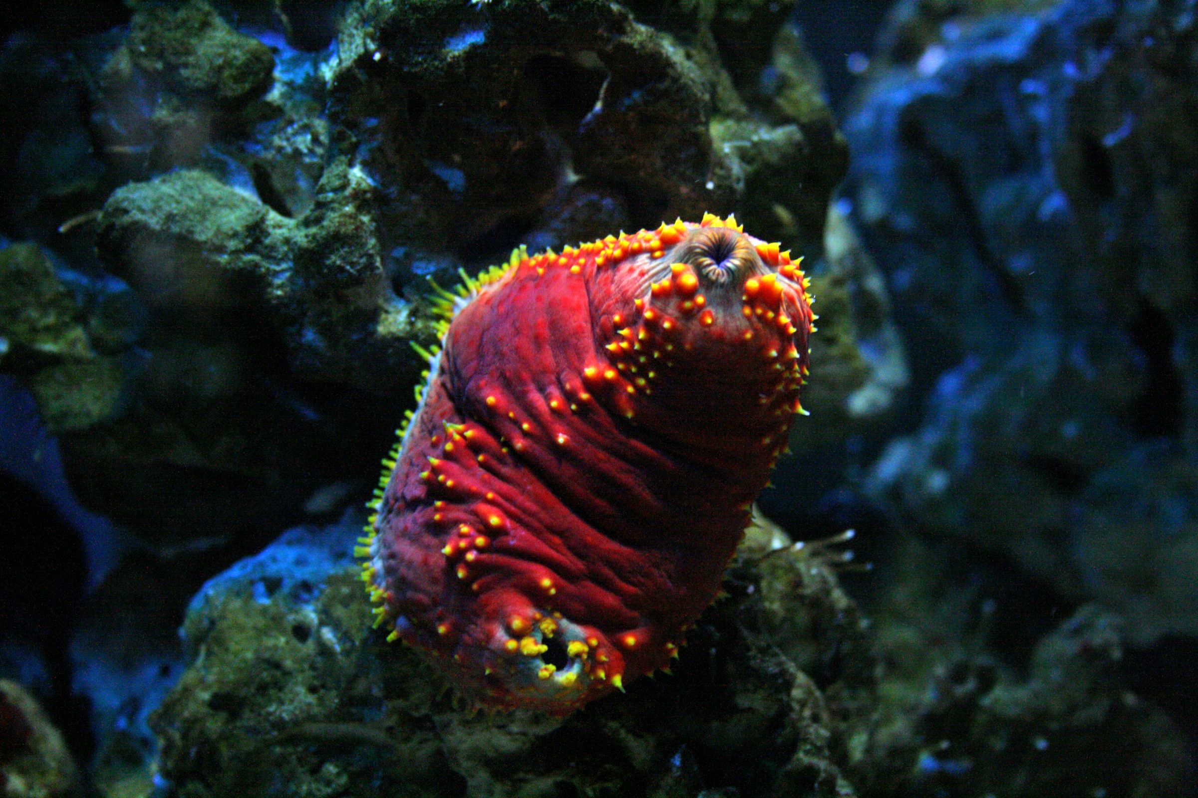 Sea cucumber Paracucumaria tricolor in Prague sea aquarium, Czech Republic